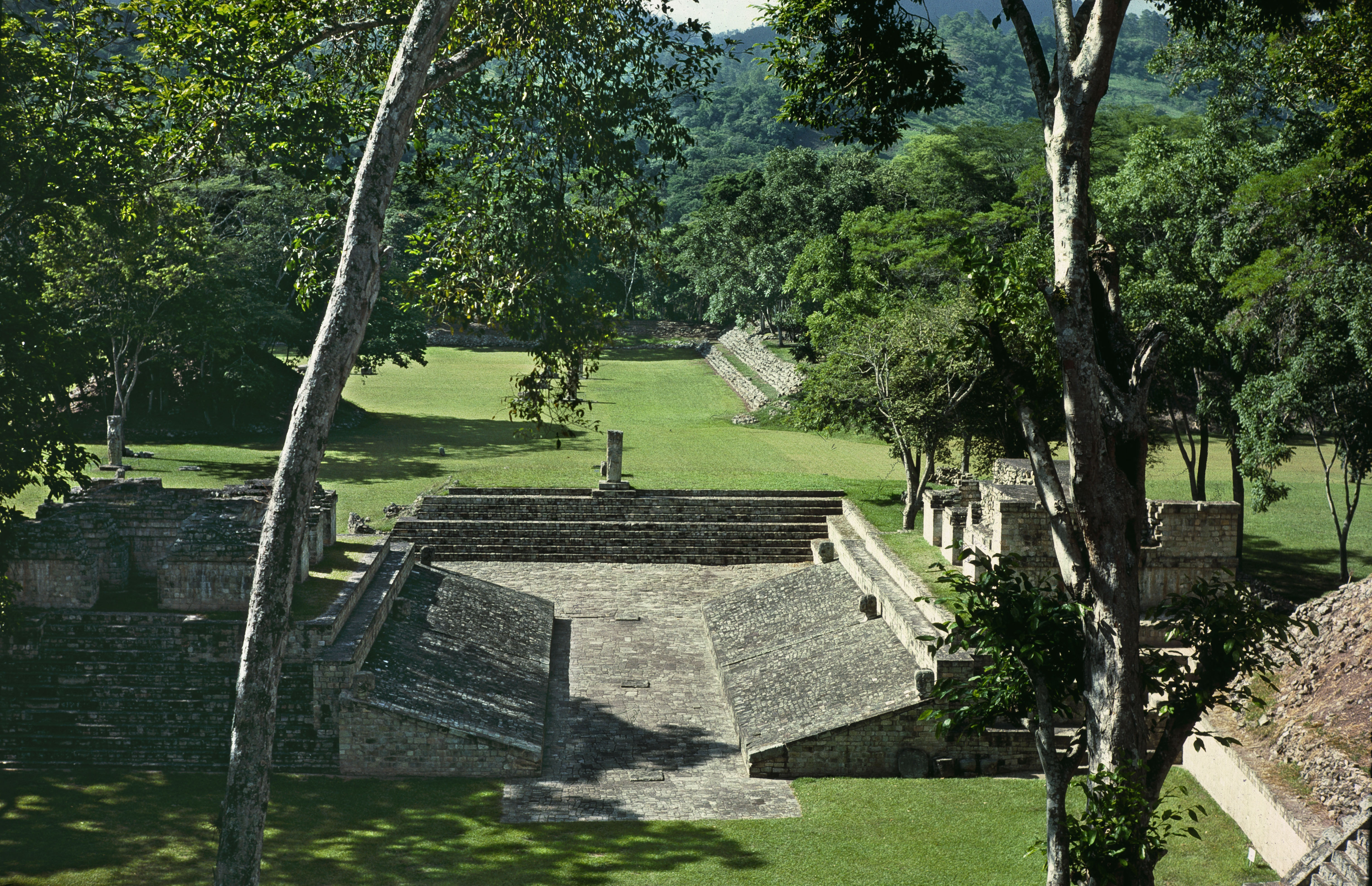 Copán, Honduras: Ballcourt